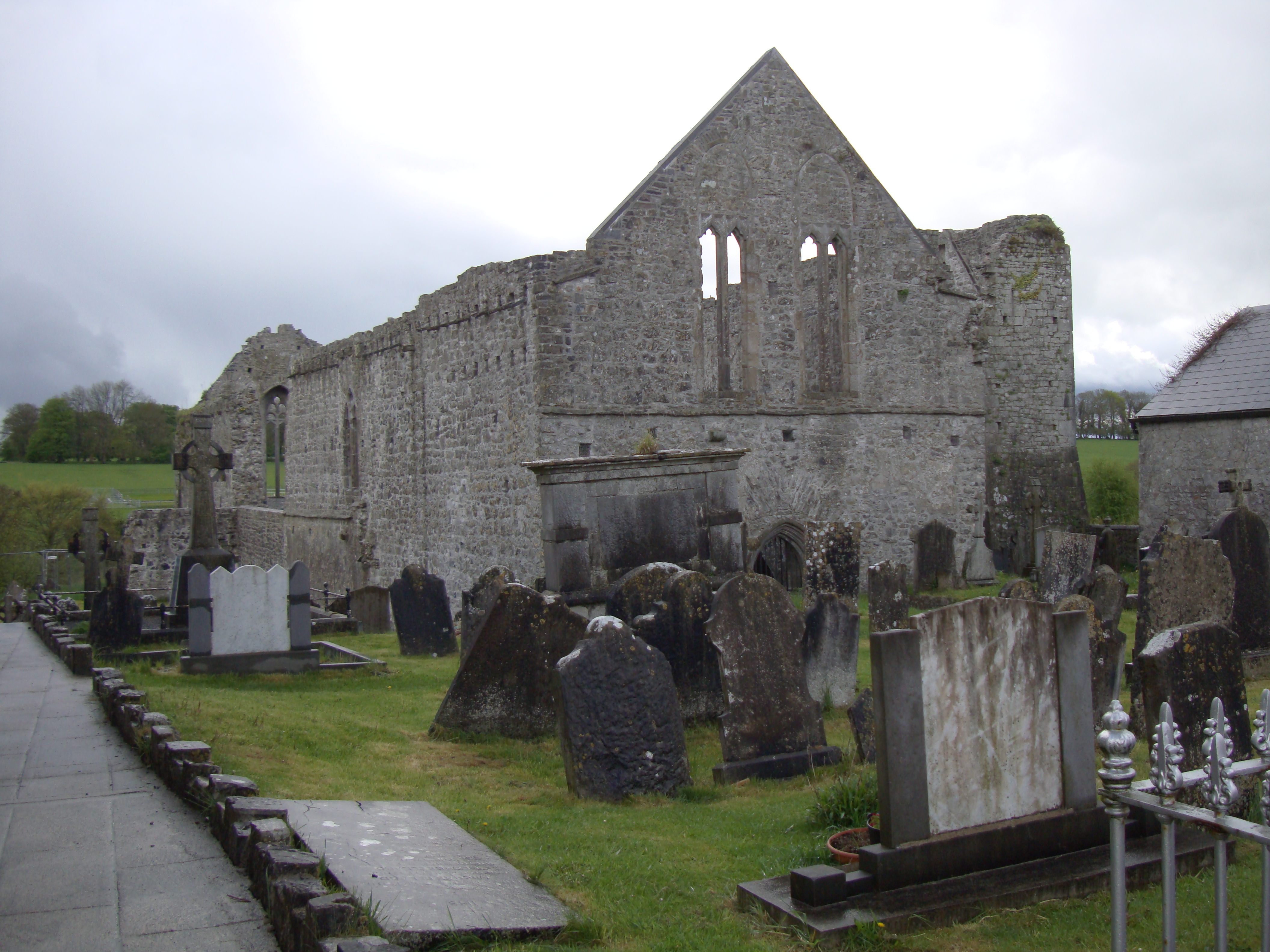 Photograph of the remains of Buttevant Friary, Co. Cork, Ireland